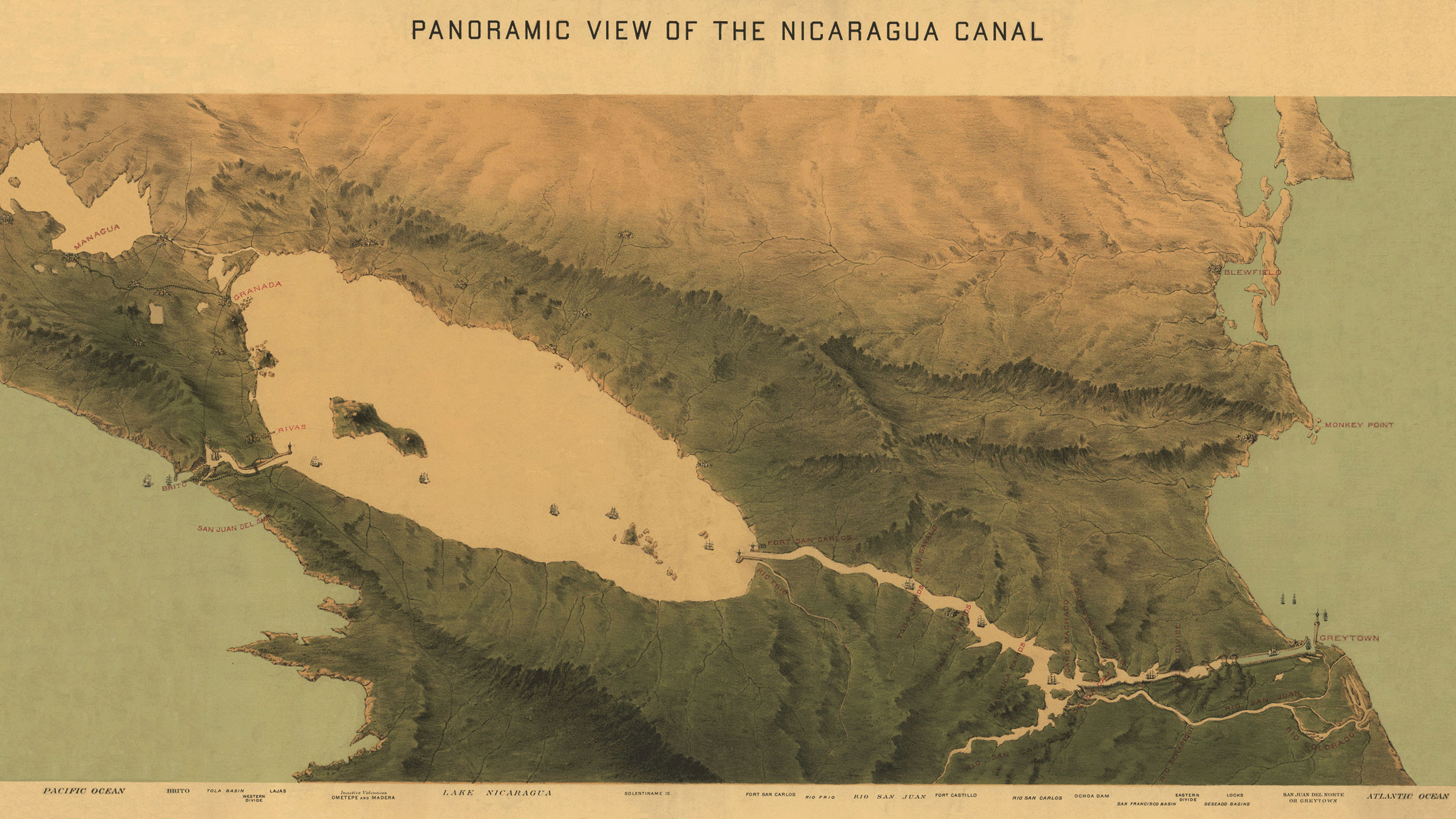 A c.1870 map of a plan for the Nicaragua Canal, drawn up by Julius Bien & Company. The map follows the southern route proposal.